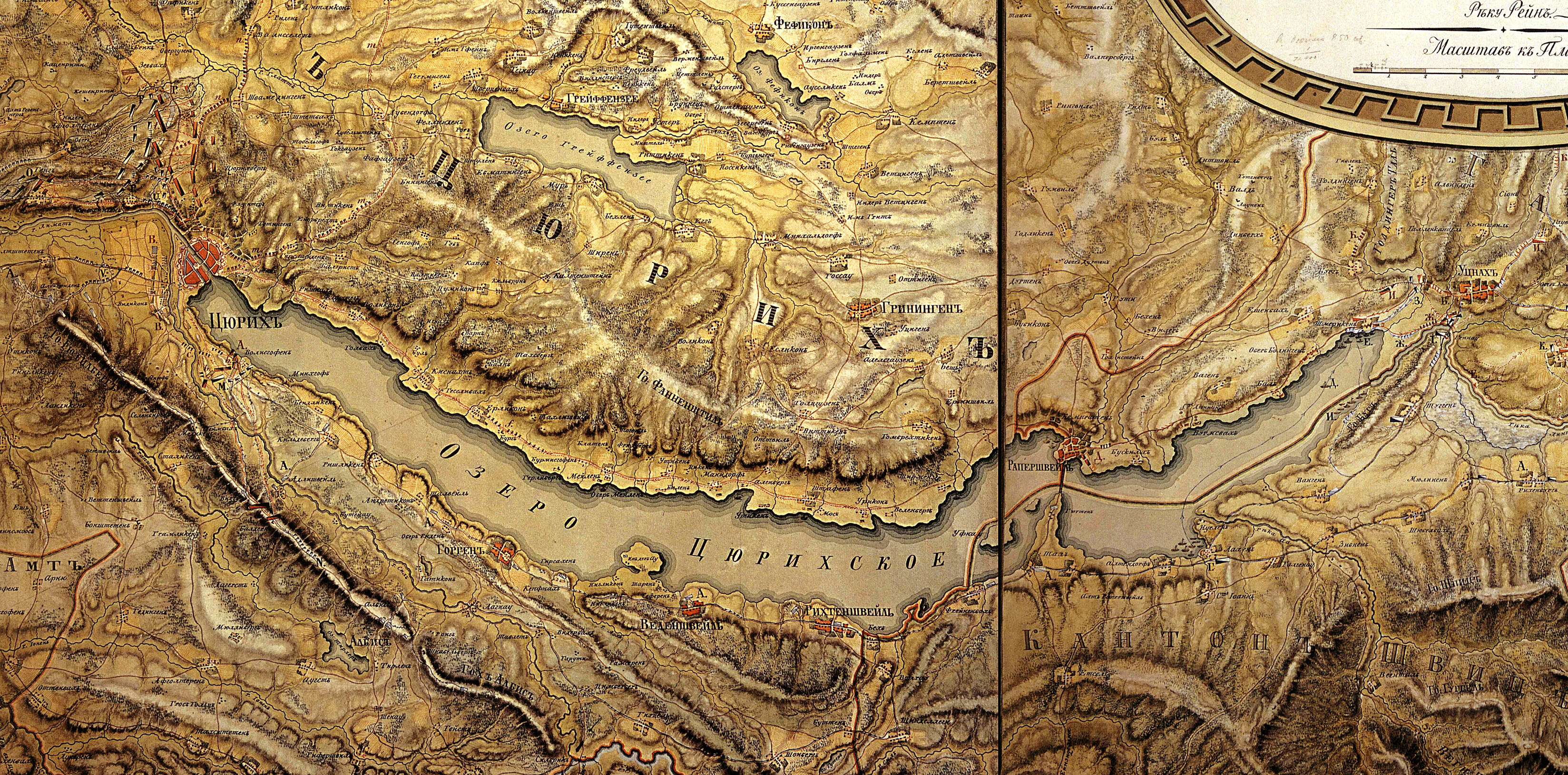 Atlas Suvorov; Lake Zurich, excerpt of map V, eastern and middle sheet; sheet 13A and B of the Atlas Suvorov; sheet 19 and 20 of the facsimile edition. The map is not oriented to the north. The original map sheets have no straight edges, this was left in the seam of the two sheets.